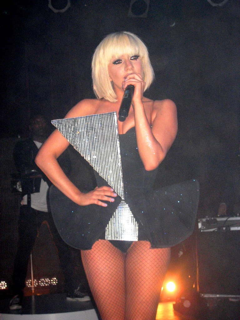 Lady Gaga performing "Paparazzi" on the Fame Ball tour